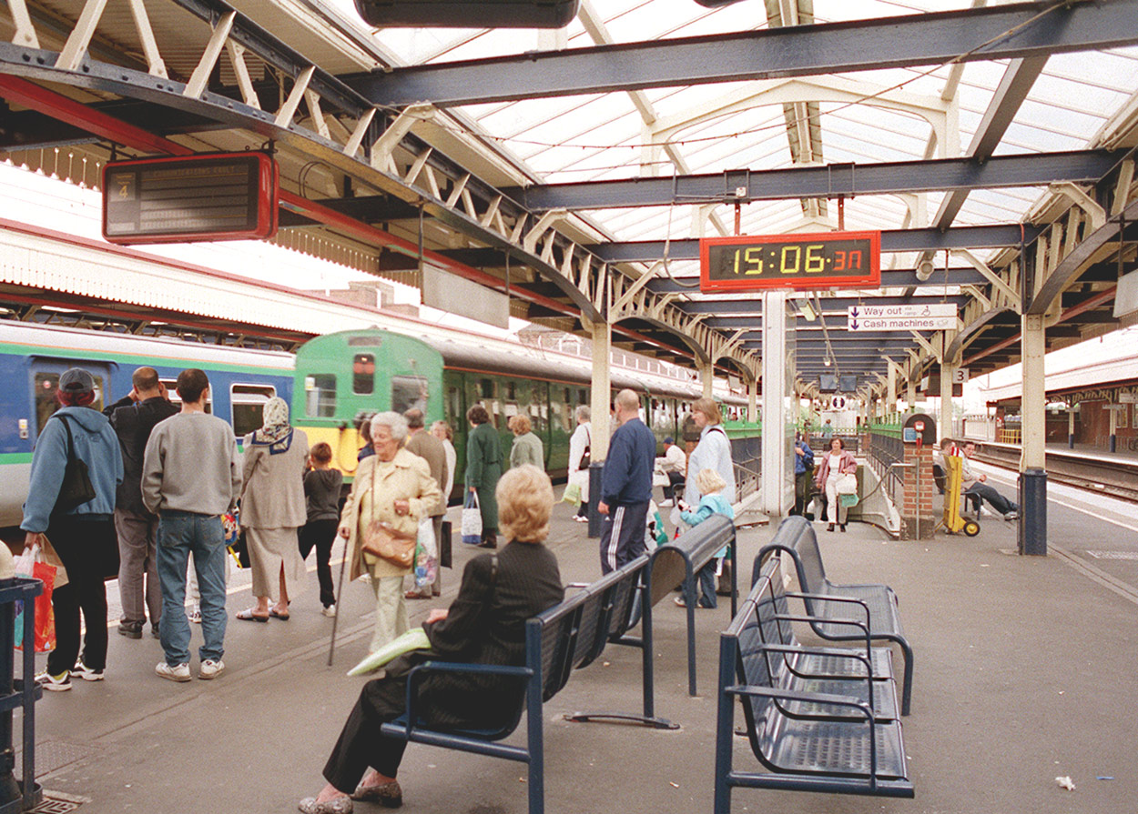 A busy scene on platform 4 at Romford station as a special working of the preserved British Railways class 306 train pulls in to pick up passengers. Also seen is a class 315 train in First GreatEastern livery on platform 5. On the right can be seen empty platforms 3 and 2, plus in the distance platform 1, which serves the shuttle to Upminster.